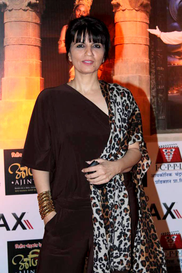 Fashion designer Neeta Lulla at the premier of Marathi film Ajinta.